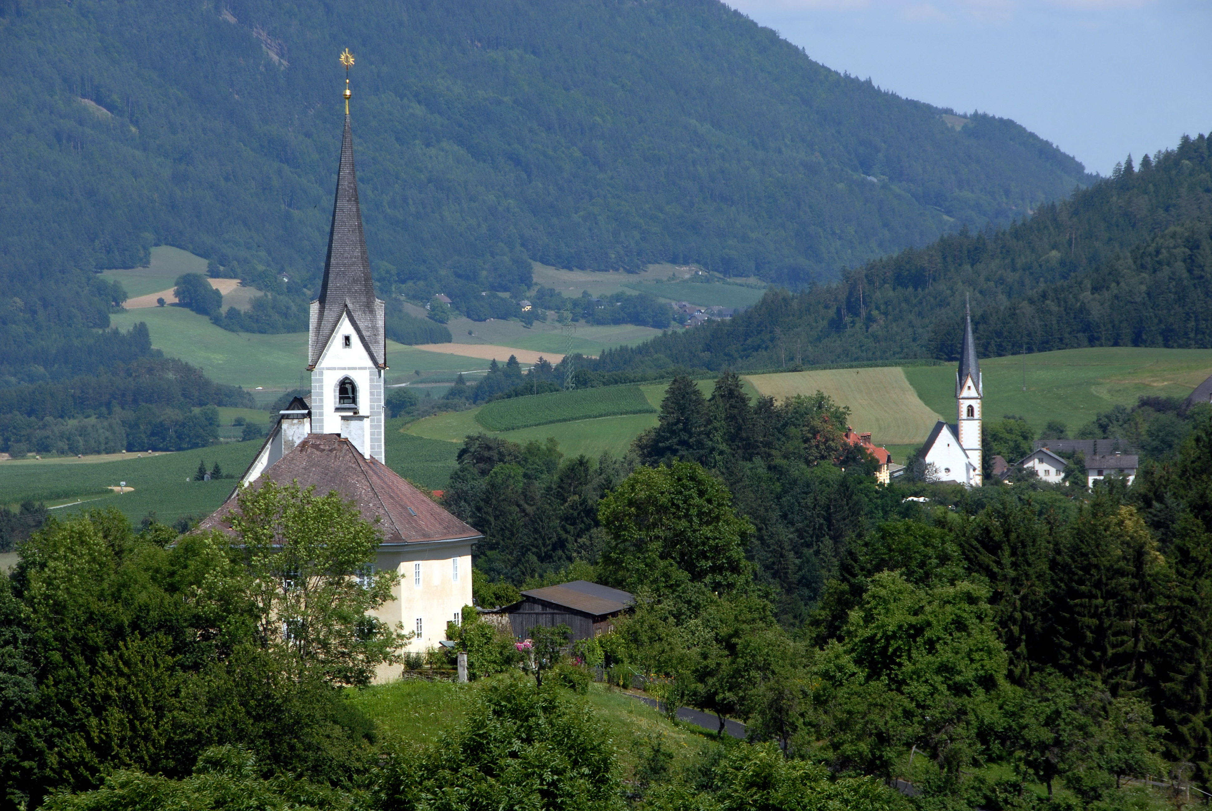 Parish church Sankt Gandolf and subsidiary church at Maria Feicht, municipality Glanegg, district Feldkirchen, Carinthia / Austria / EU